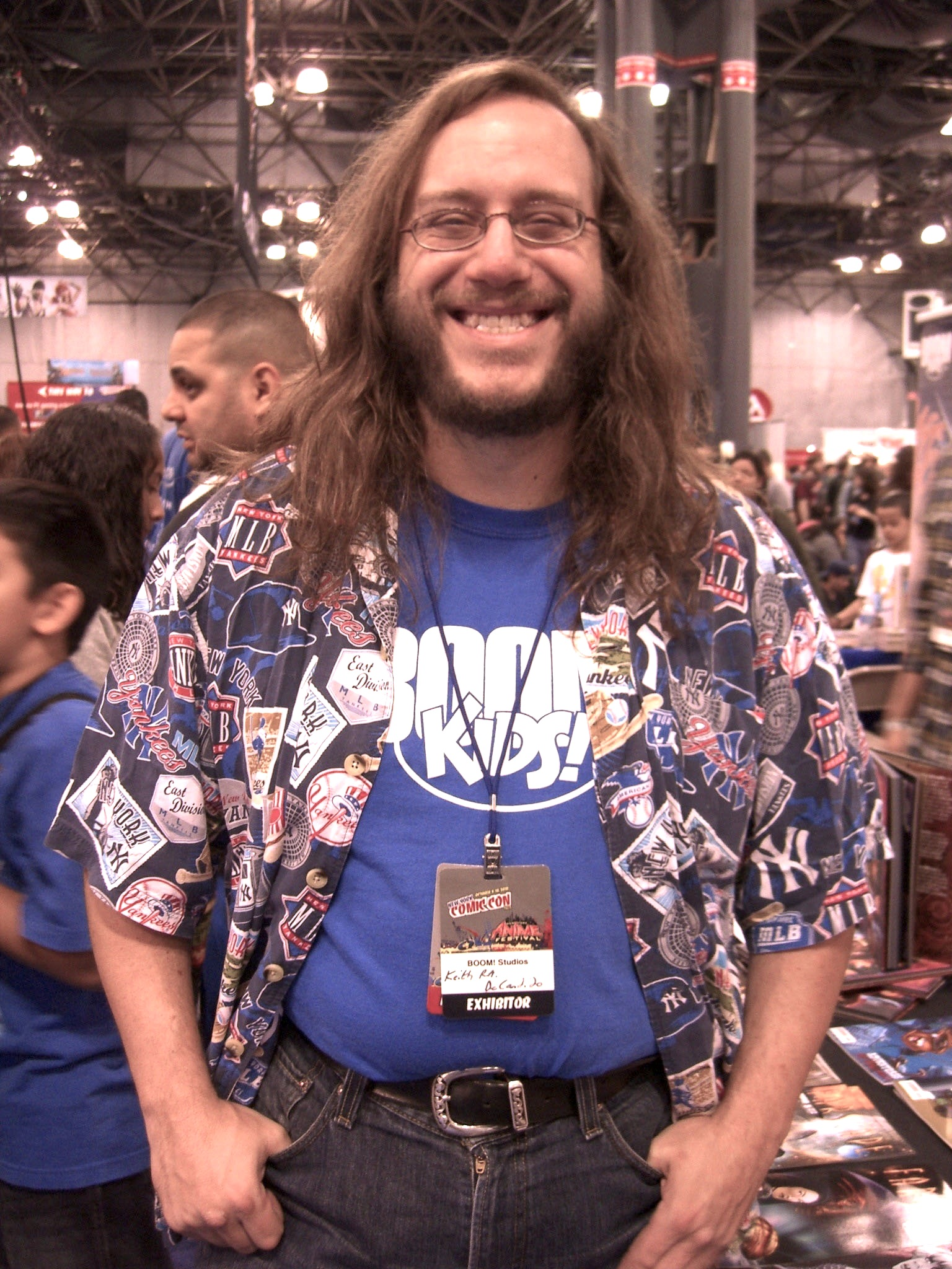 Comic book creator Keith DeCandido, at the New York Comic Convention in Manhattan, October 10, 2010. Photo by Luigi Novi. This photo may be used, modified and published for any purpose, only if a easily visible credit to the photographer is placed near the photo in each instance in which it is used. (See licensing information below.) Publication of this photo without this proper attribution constitute copyright infringement. For more information on my photos, you can contact me here.